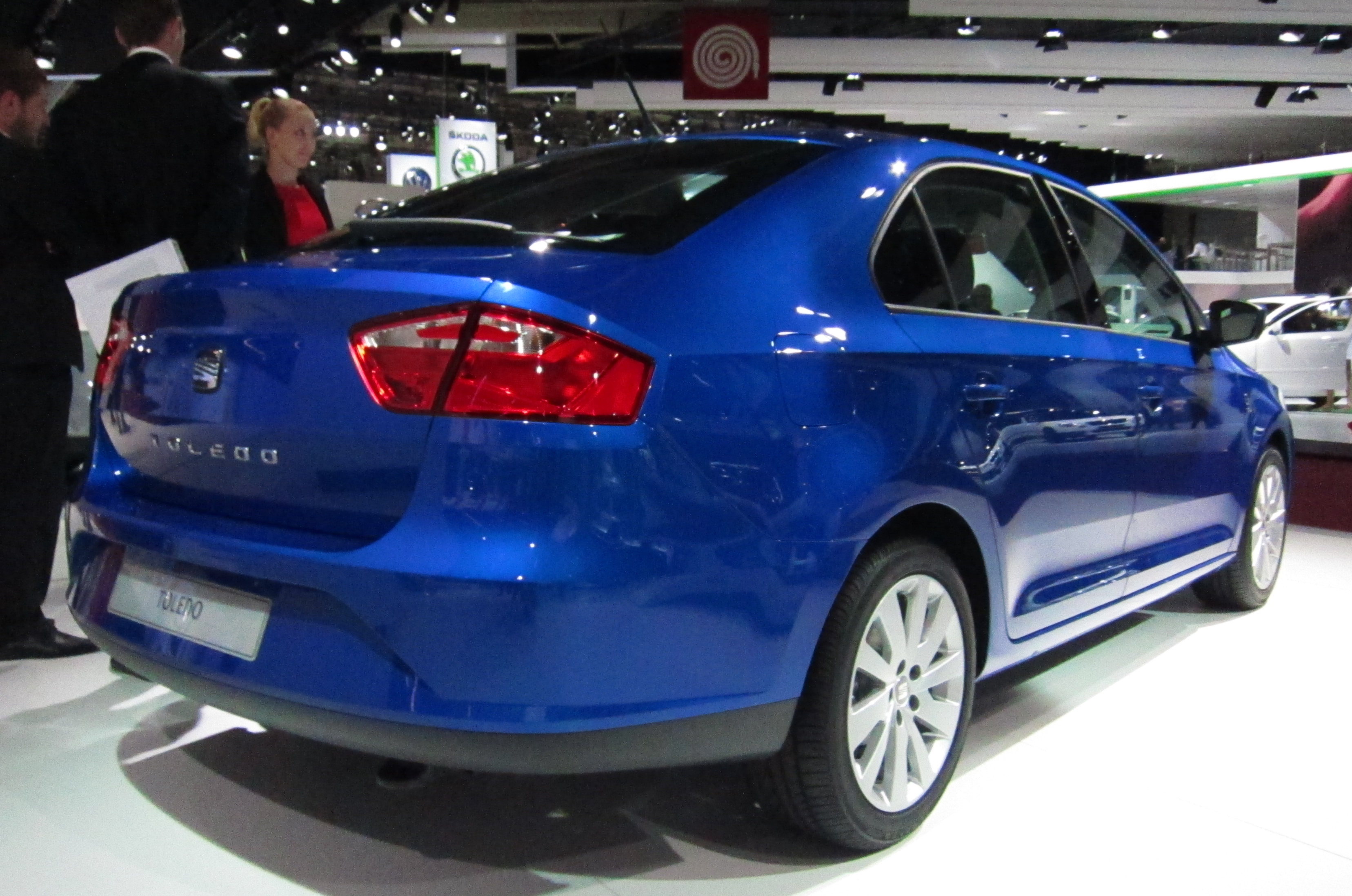 Seat Toledo at Mondial de l'Automobile Paris 2012